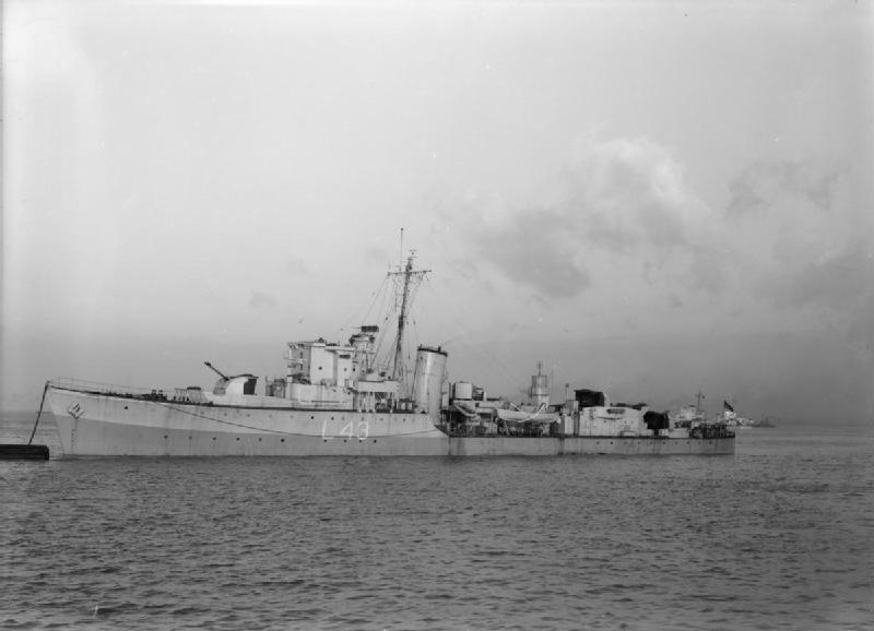 British Hunt class destroyer HMS Blackmore, moored to a buoy on the River Medway.